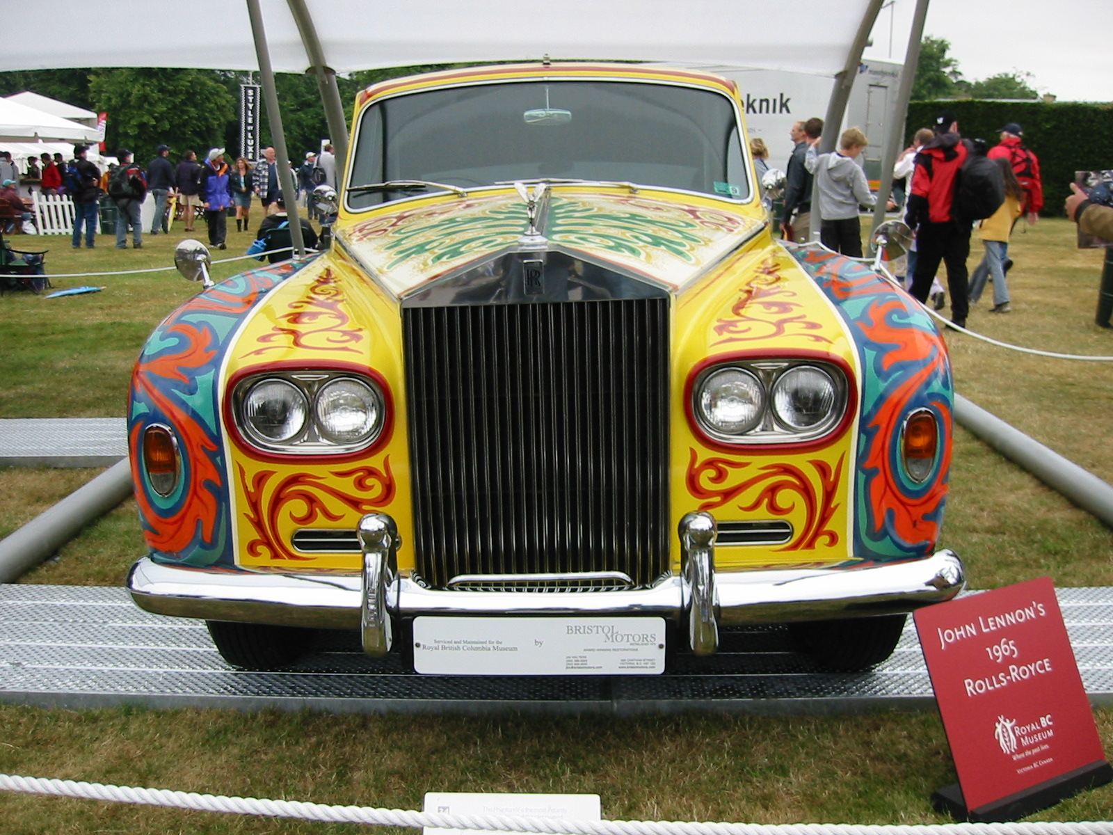 John Lennon's 1965 Phantom V Rolls-Royce. It contains a telephone, television, refrigerator and the rear seat has been converted into a bed. Engine is a 6.2l V8 Top Speed 110mph.